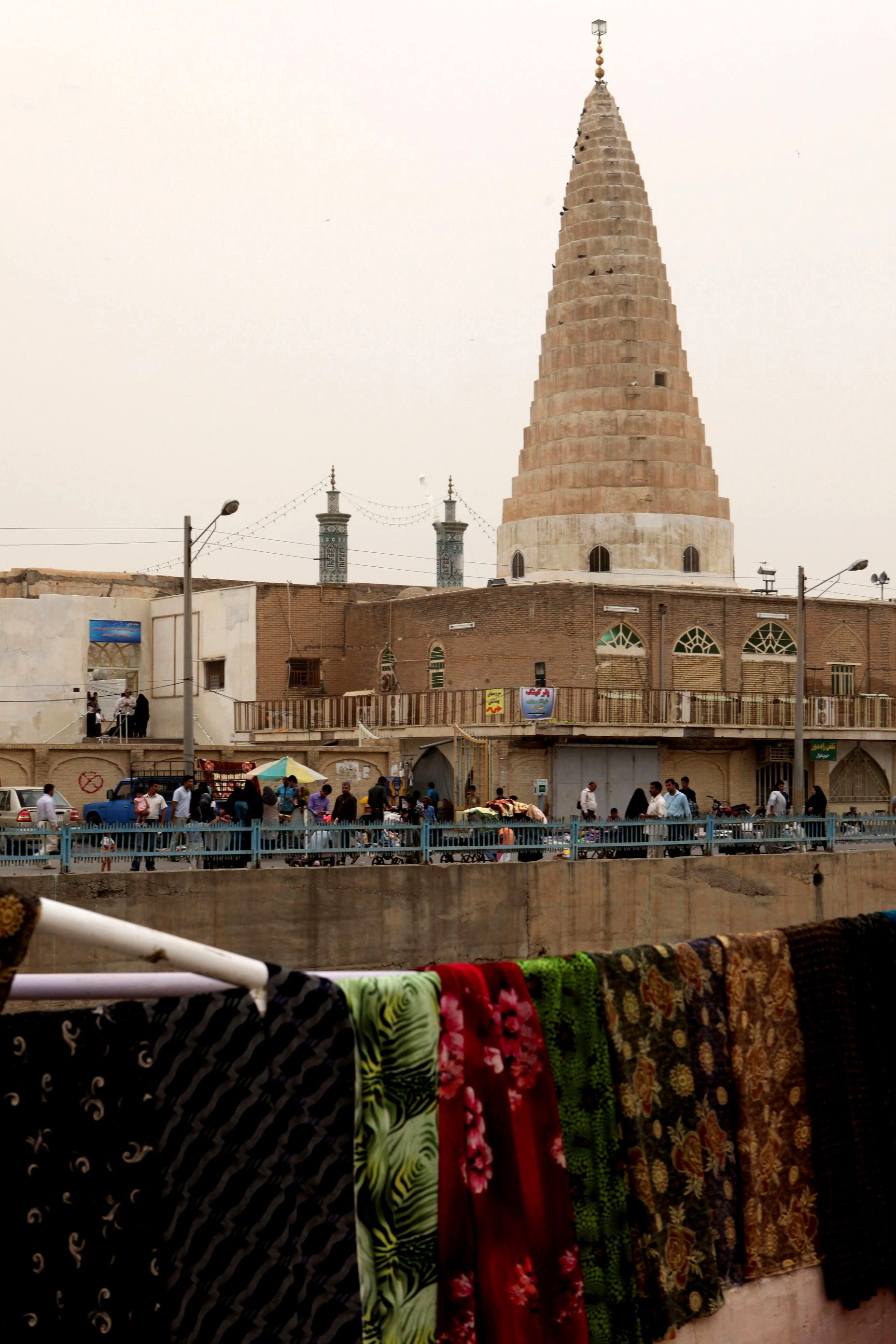 Shush, Iran, Tomb of Daniel